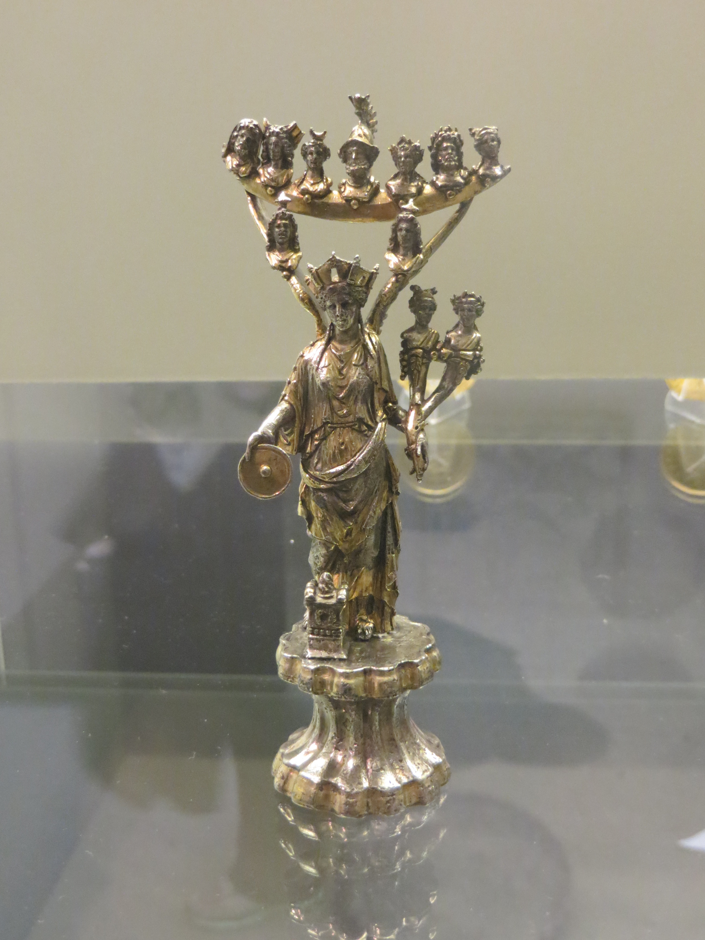 Silver statuette of the Gallo-Roman goddess Tutela with a cornucopia and the mural crown worn by the protectress of a city. Standing on a twelve-sided, ribbed base, the goddess holds a patera (libation dish) in her right hand and in her left a double cornucopia, with heads of Diana and Apollo. Her long wings carry busts of Castor and Pollux (Kastor and Polydeukes), and support a stand on which rest seven busts representing the gods of the days of the week. After Saturn, the eldest of the gods, come Sol (sun), Luna (moon), Mars, Mercury, Jupiter and Venus. Gilding is applied to the patera, the wings and robe of the goddess, and the clothing and ornaments of the busts.